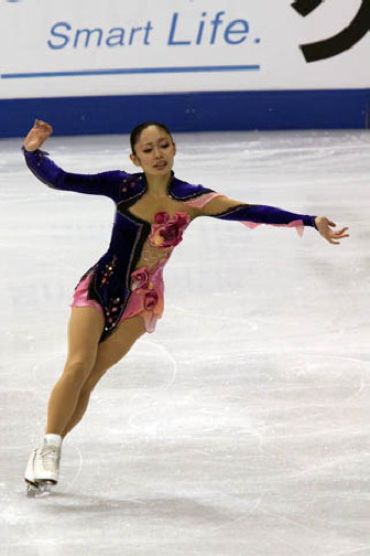 Miki Ando (JPN) performs her short program at the 2009 World Figure Skating Championships.